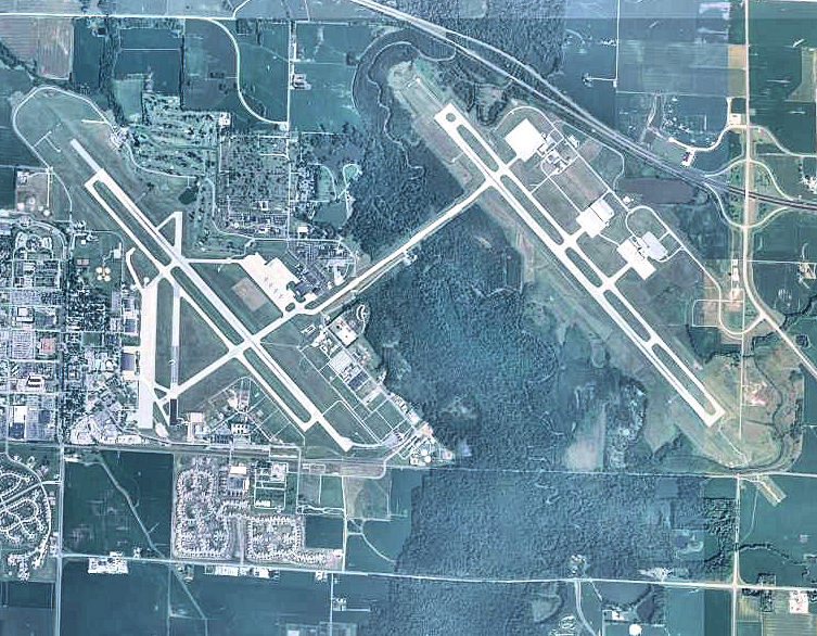 Scott Air Force Base, Illinois